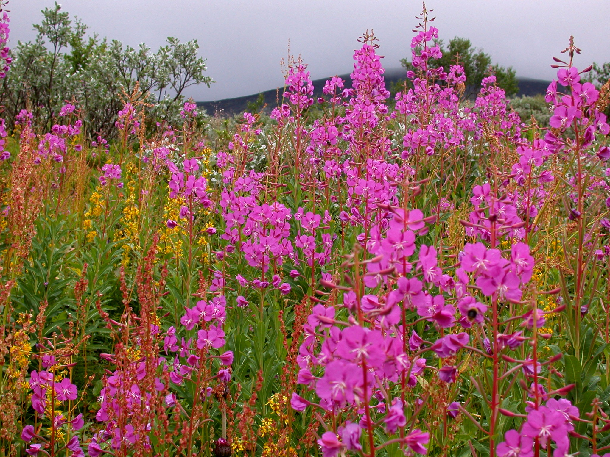 Alpine Meadow near Abisko national park